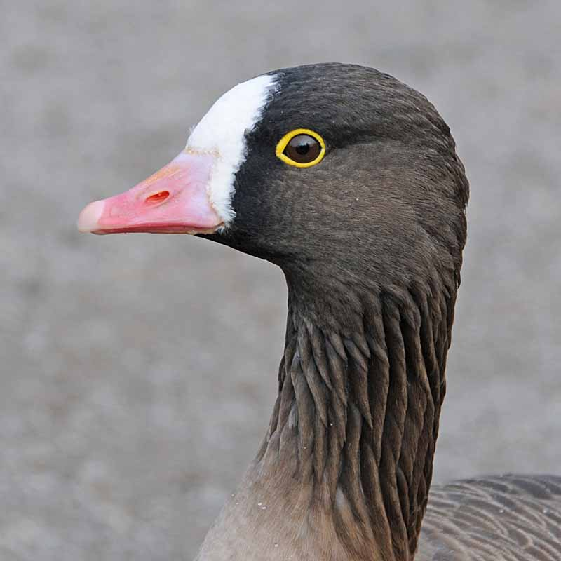 A Lesser White-fronted Goose at WWT Slimbridge, Gloucestershire, England.